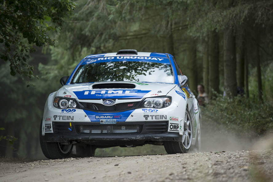 Rally Germany 2012 ADAC Rallye Deutschland,Marcos Sebastian Ligato,Motorsport,Rally,Rallye,Rallye Deutschland,Ruben Garcia,SS10,Stein & Wein 2,Subaru Impreza WRX STi,WP10,WRC